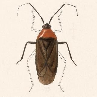 Biologia Centrali-Americana - Neocapsus mexicanus Cut-out from original (Biologia Centrali-Americana (8271469139).jpg) shown below